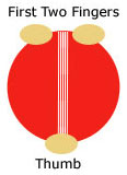 Diagram showing the correct grip for bowling the slower ball in cricket.